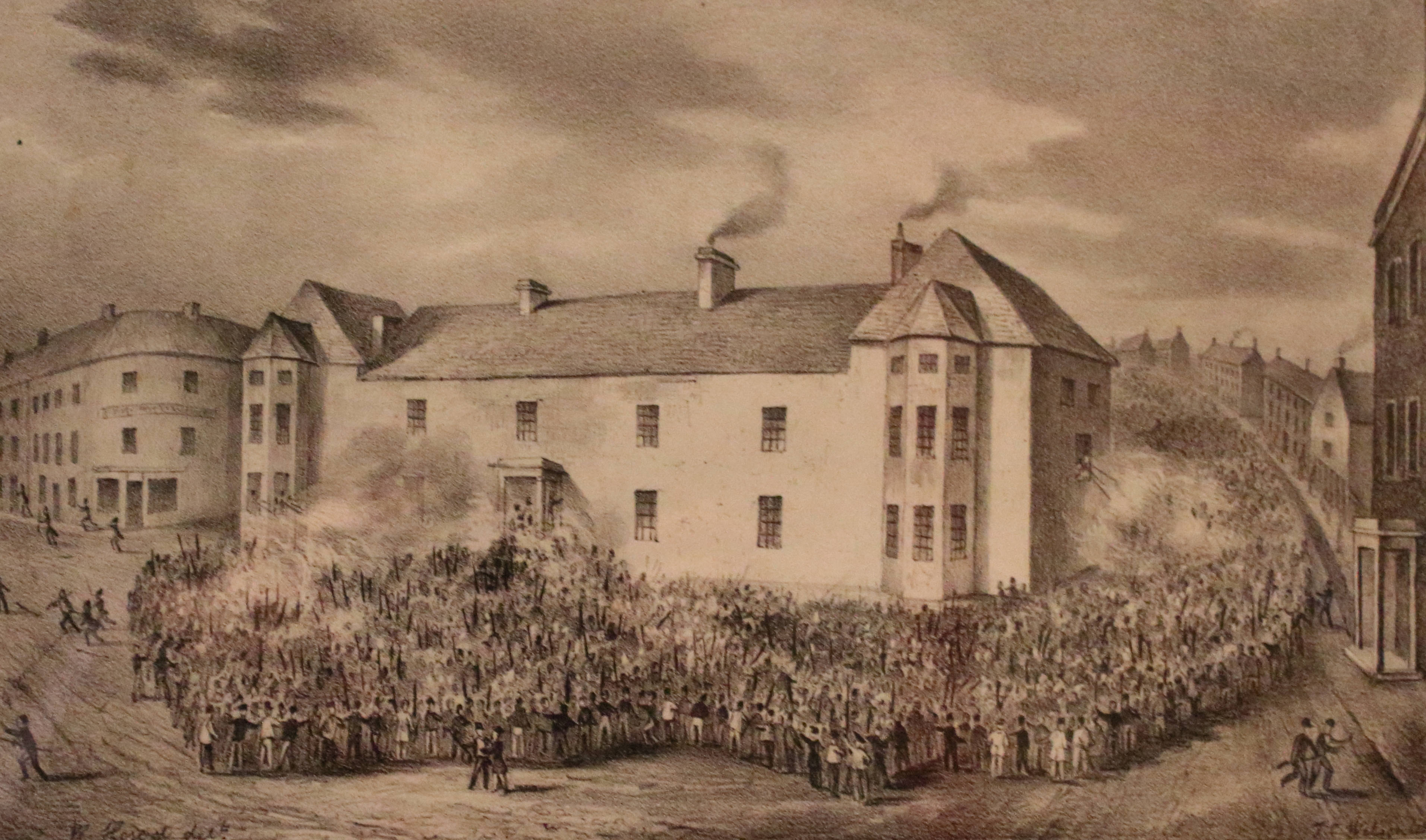 Chartist Demonstration Newport 1839